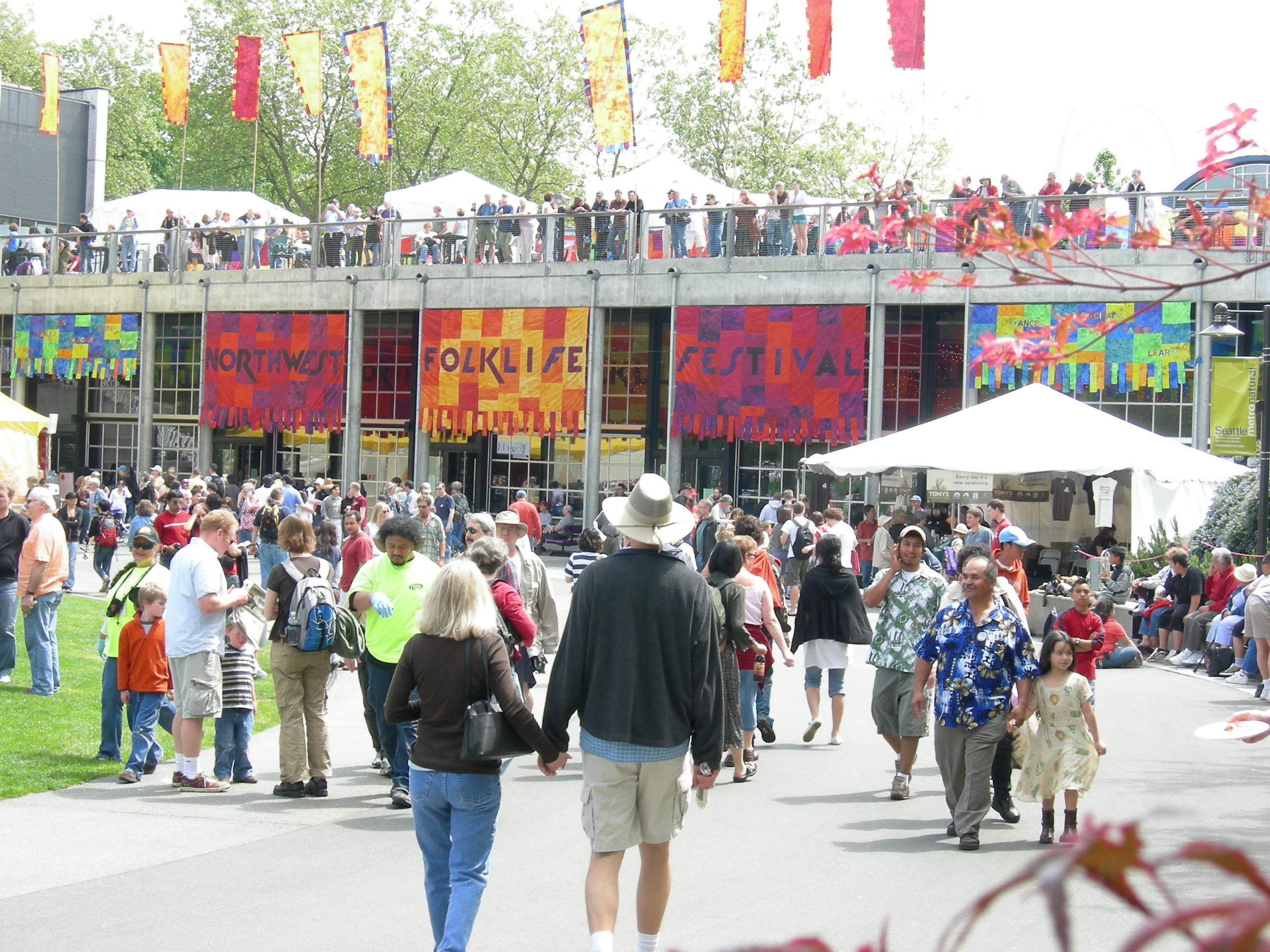 Fisher Pavilion at Seattle Center (not the Seattle Center Pavilion) decorated for Northwest Folklife Festival.